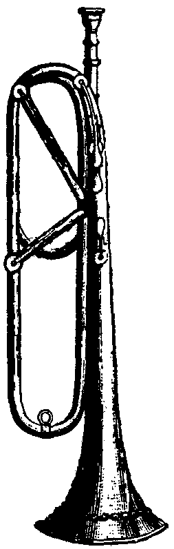 A drawing of a trumpet with five keys.